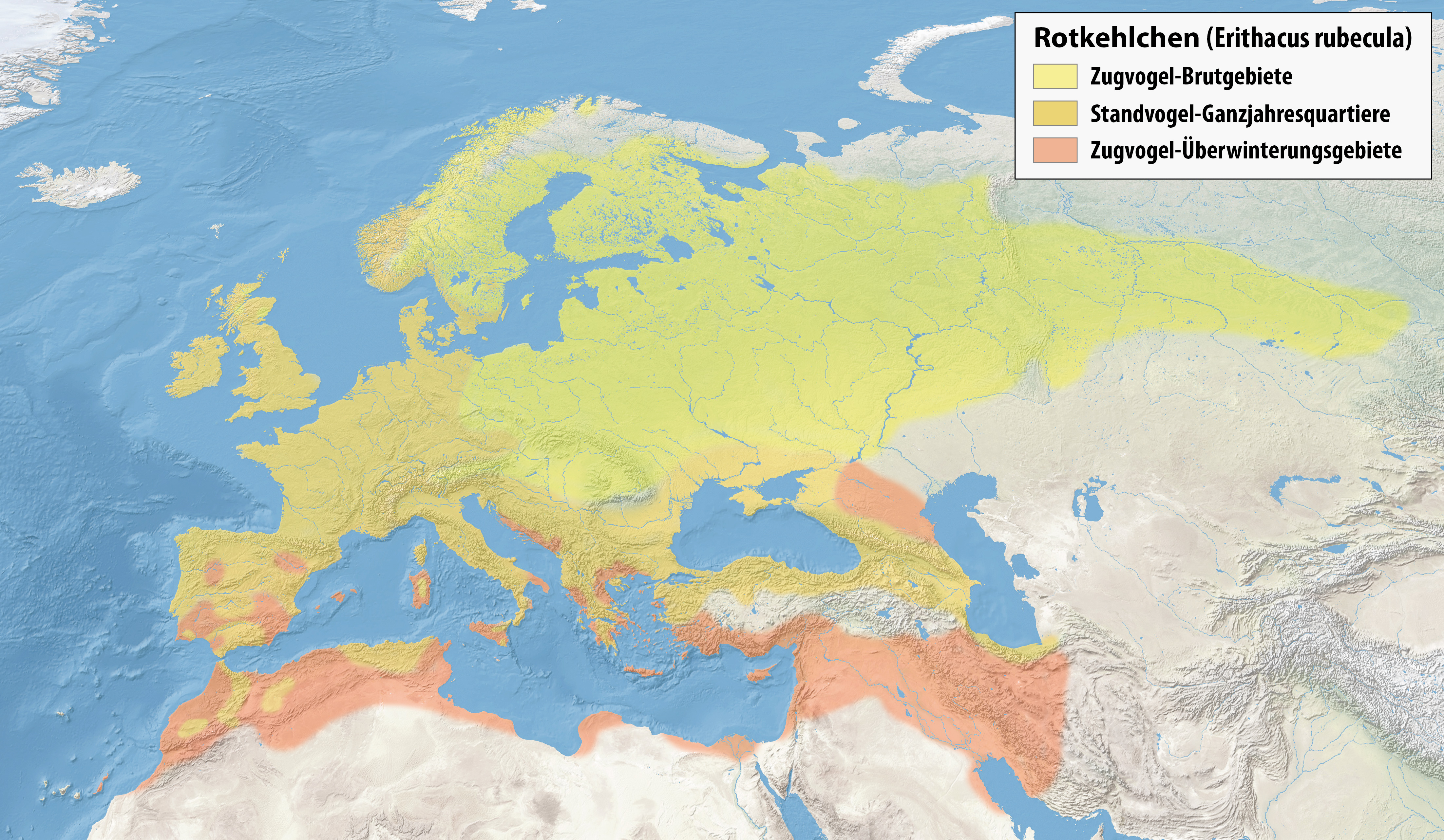 Distribution map of the European Robin (Erithacus rubecula) "Zugvogel-Brutgebiete" = Extant (breeding) "Standvogel-Ganzjahresquartiere" = Extant (resident) "Zugvogel-Überwinterungsgebiete" = Extant (non breeding)